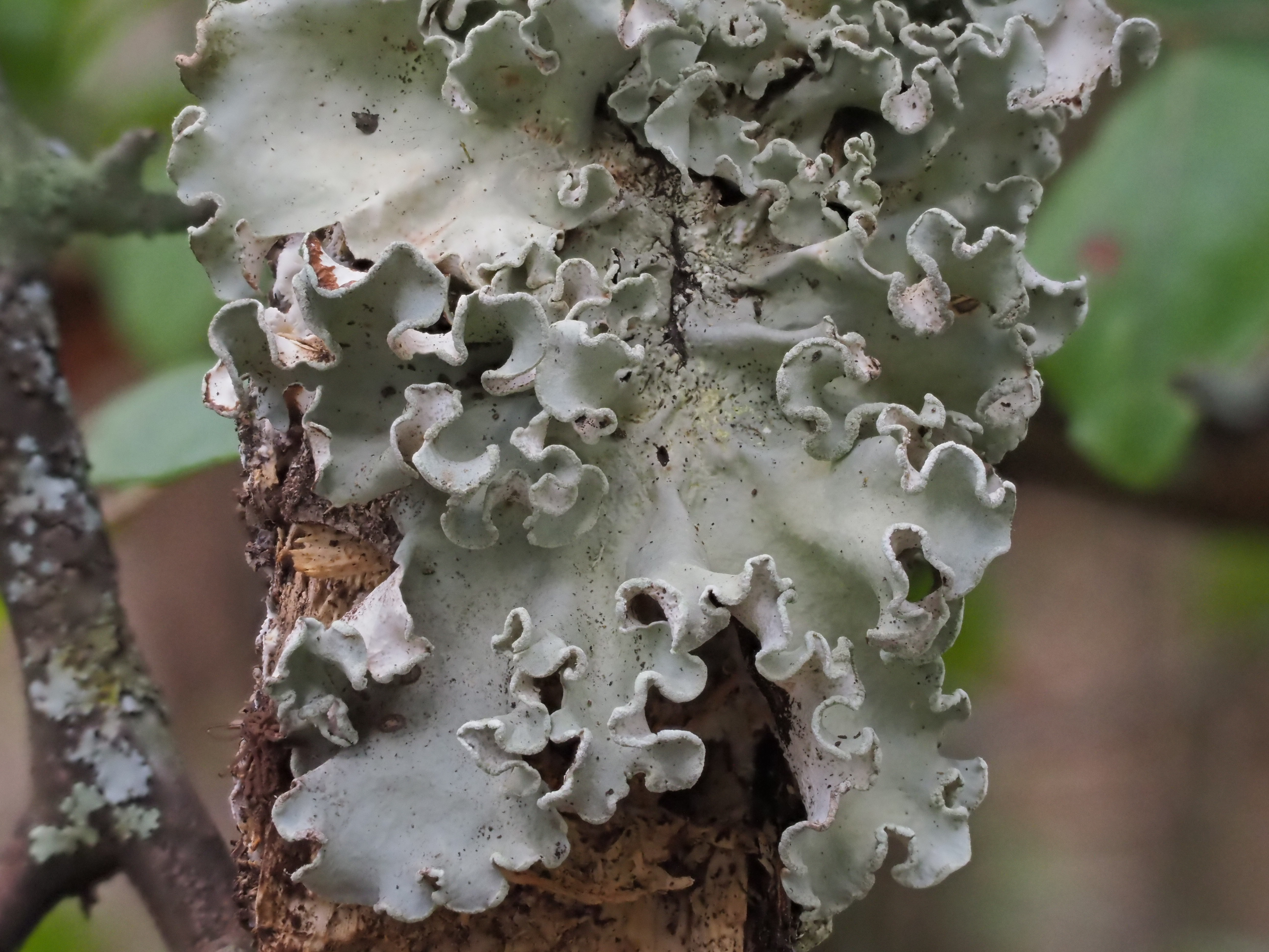 The lichen Parmotrema austrosinense (Zahlbr.) Hale, photographed in Cheaha State Park, Clay Co. and Cleburne Co, Alabama, USA